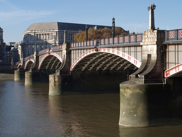 Lambeth Bridge Opened in 1932 across the River Thames, and seen here from the Albert Embankment.